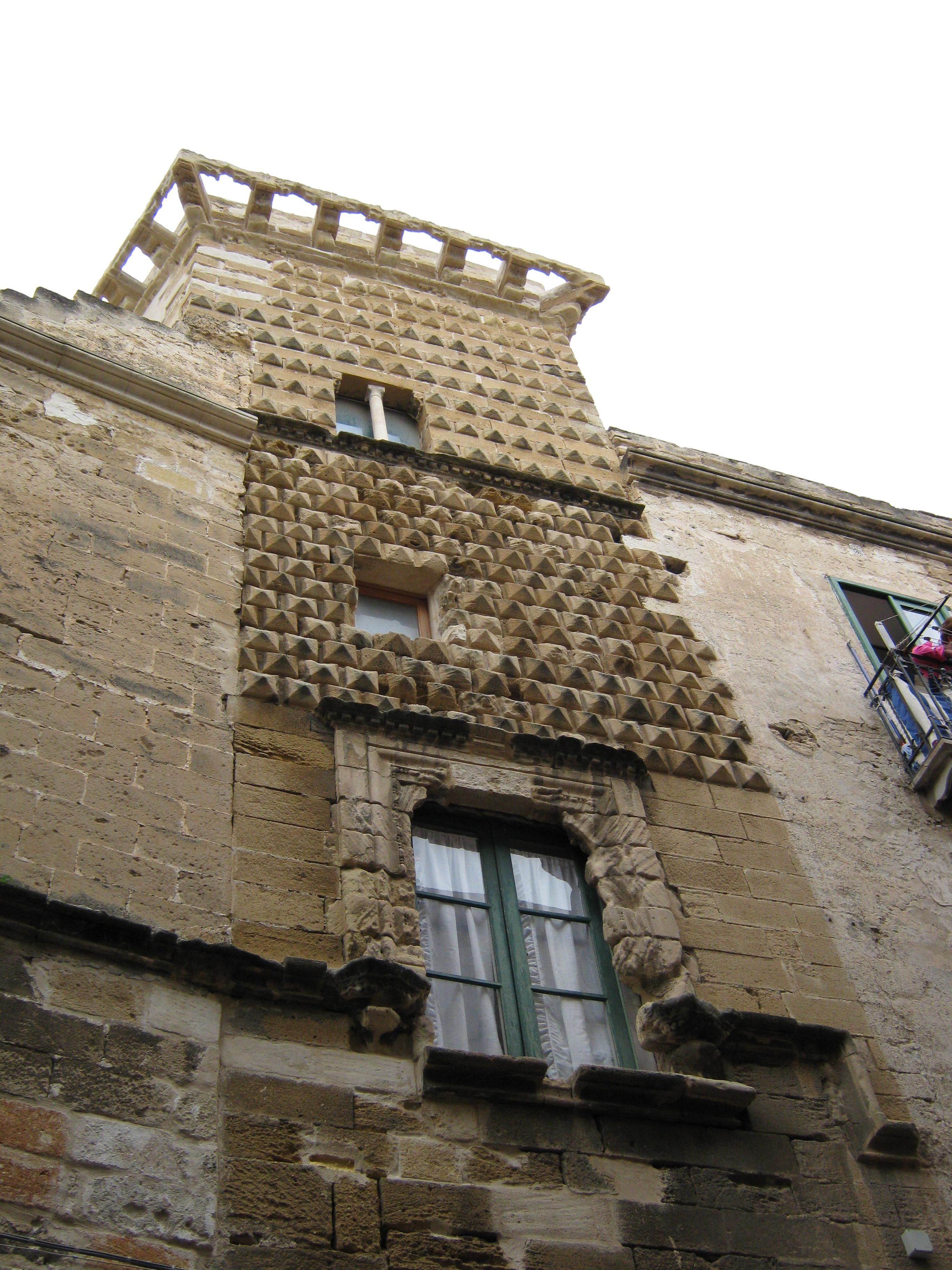 The ancient Giudecca Palace in the old town centre of Trapany, Sicily, Italy